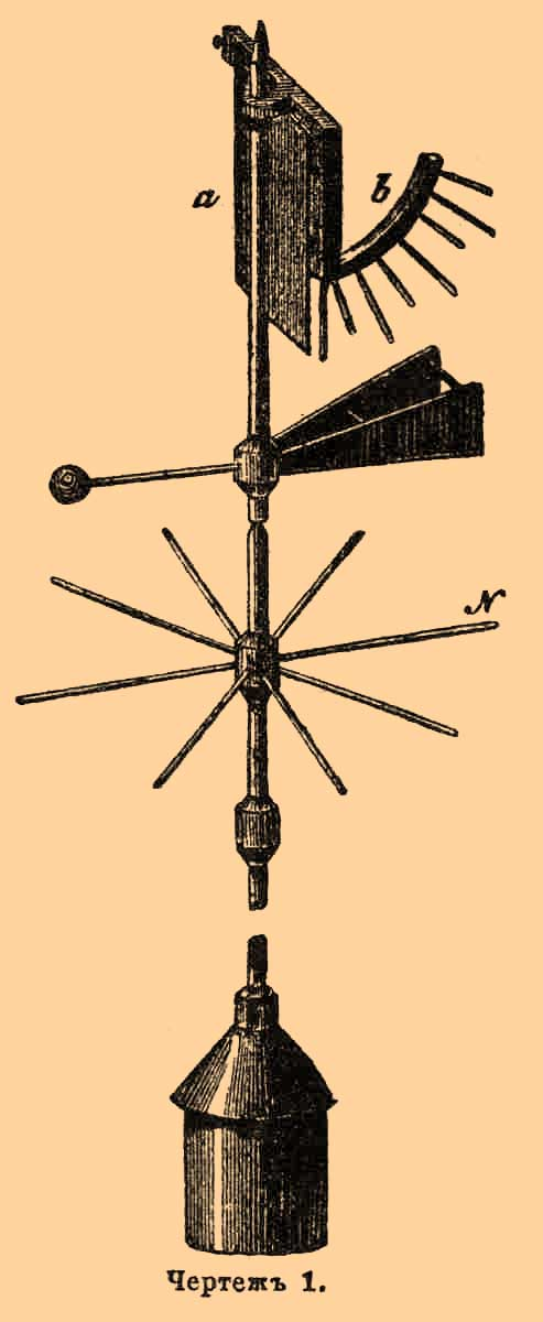 Illustration from Brockhaus and Efron Encyclopedic Dictionary (1890—1907)